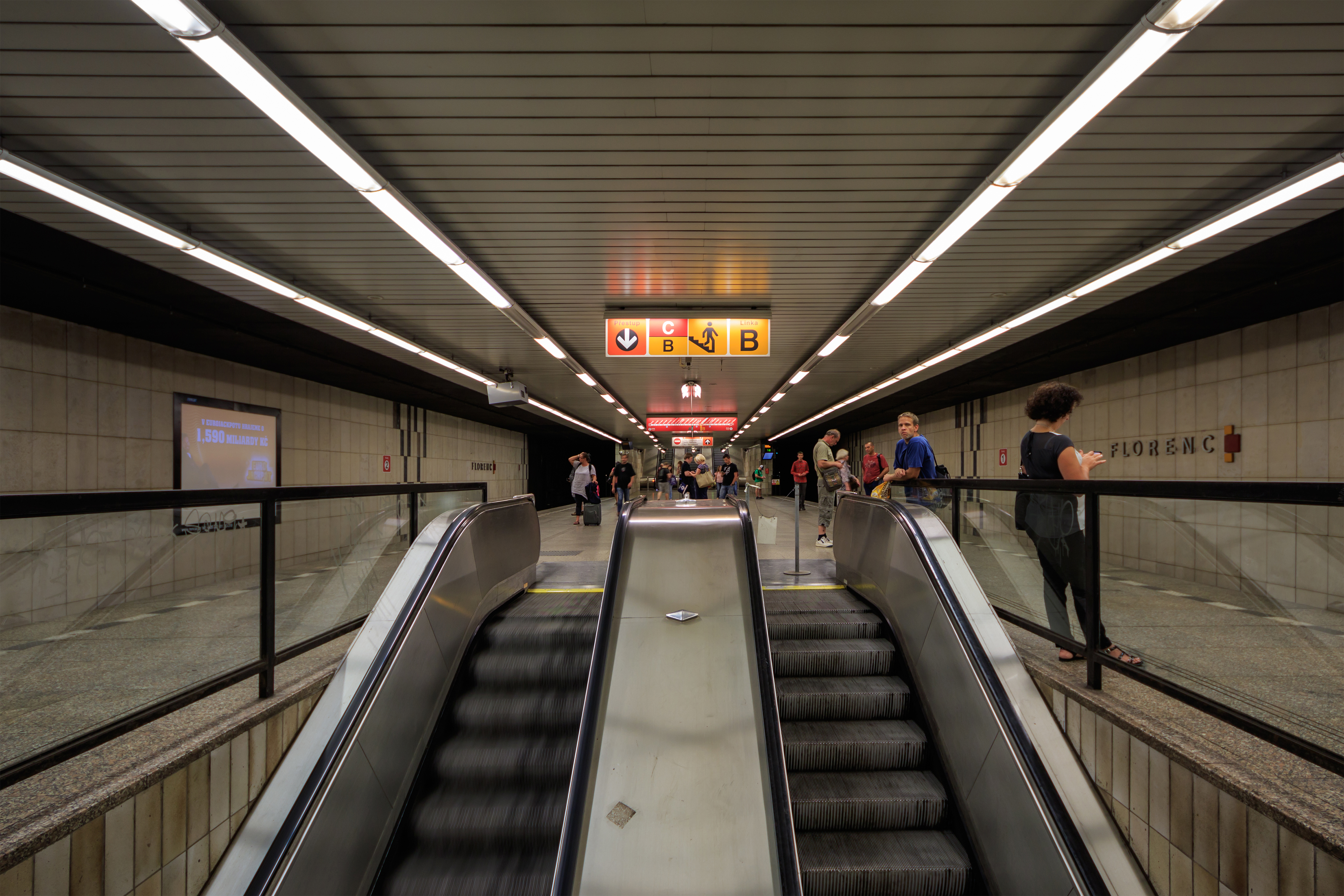 Florenc (Line C) metro station in Prague (Czech Republic)